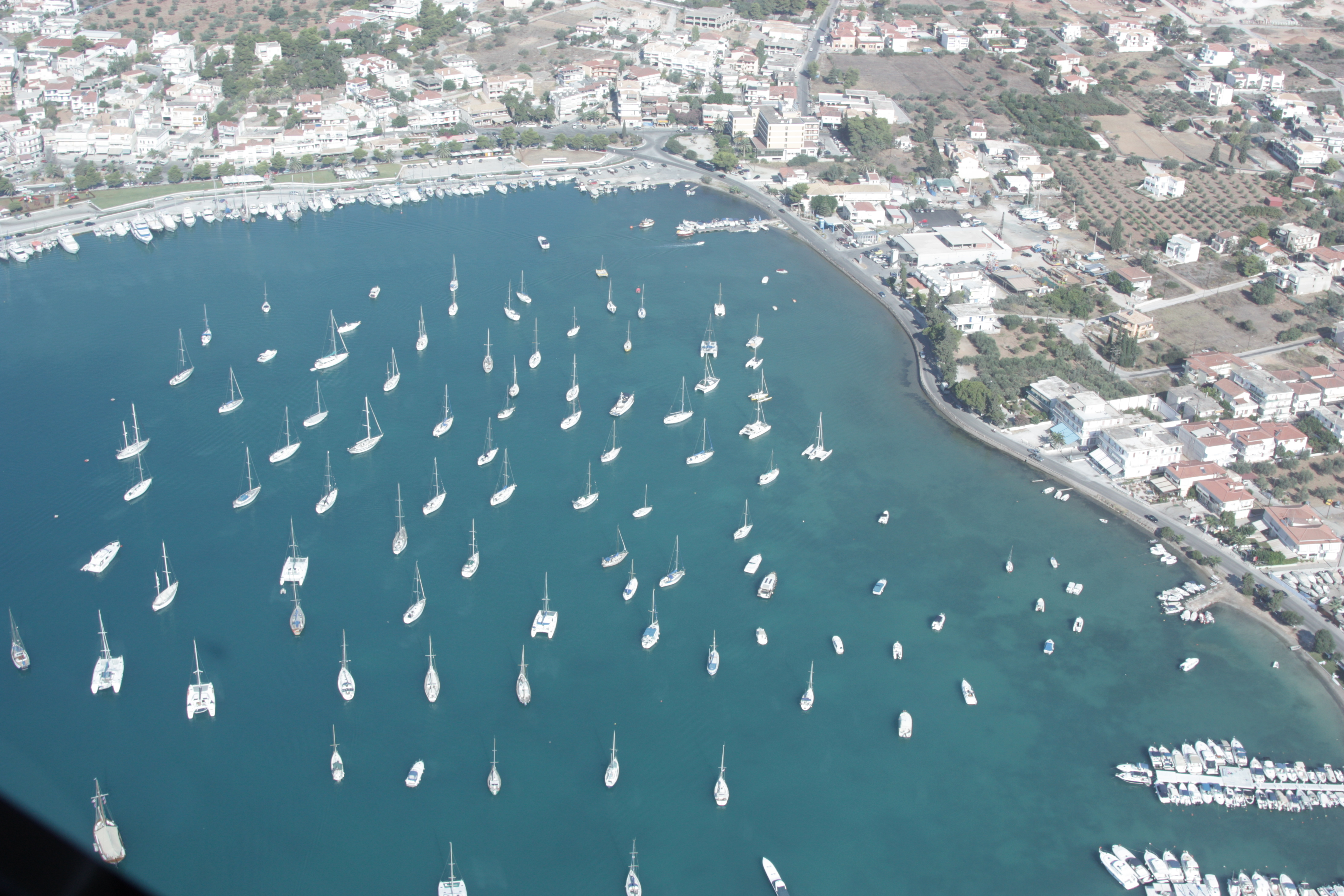 Epar.Od. Porto Cheli - Kosta, Porto Cheli 213 00, Greece